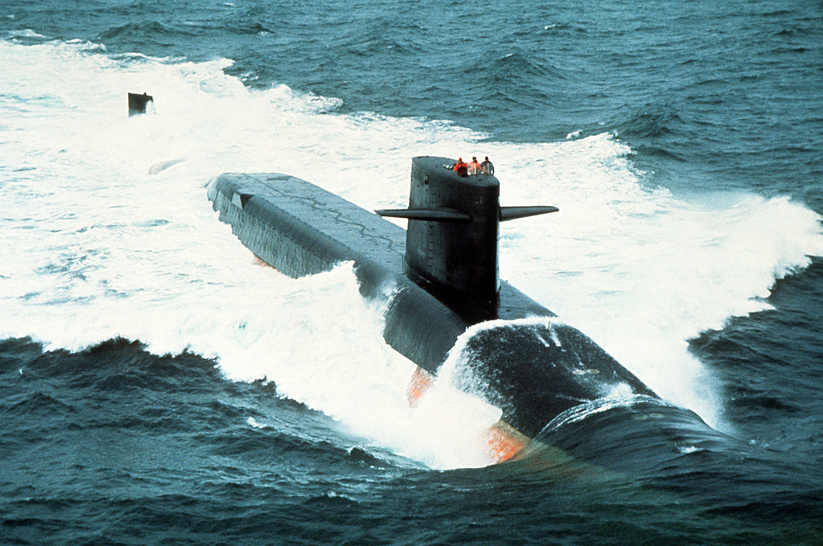 A starboard bow view of the nuclear-powered strategic missile submarine USS JAMES MONROE (SSBN-622) underway.